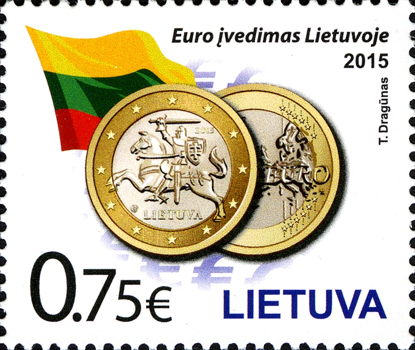 Stamps of Lithuania, 2015